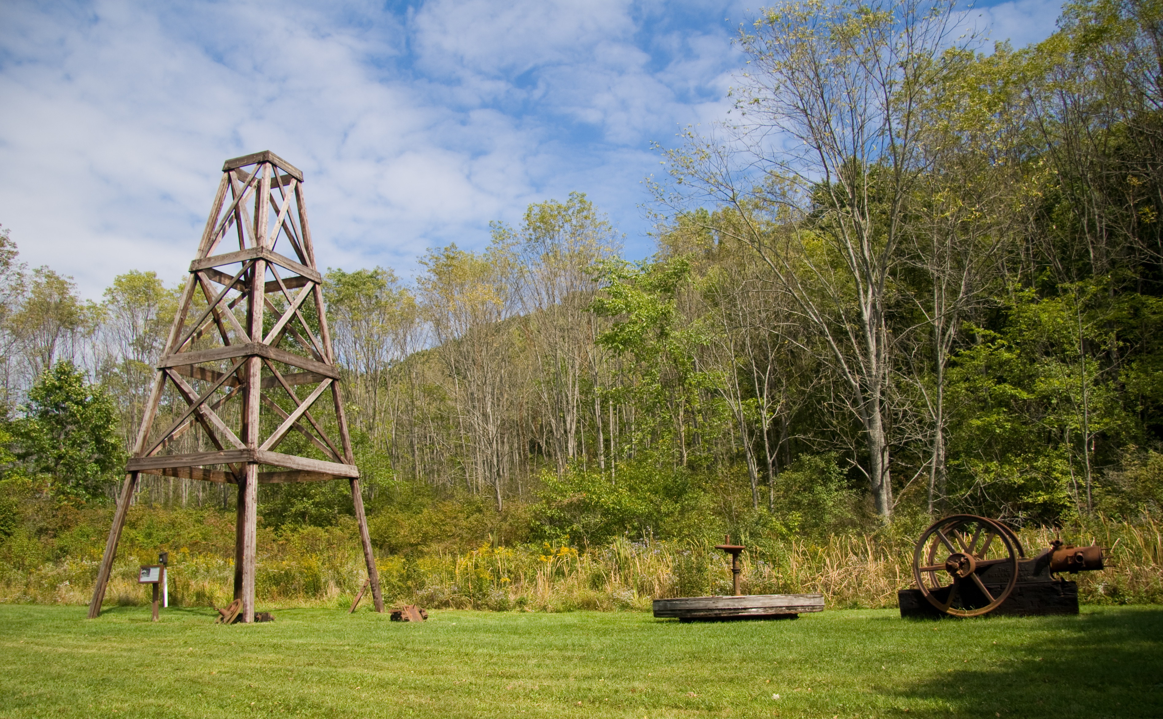 Historic reconstruction of oil derrick at Oil Creek State Park in Venango County, Pennsylvania.